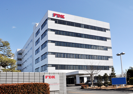 FDK TWICELL Building